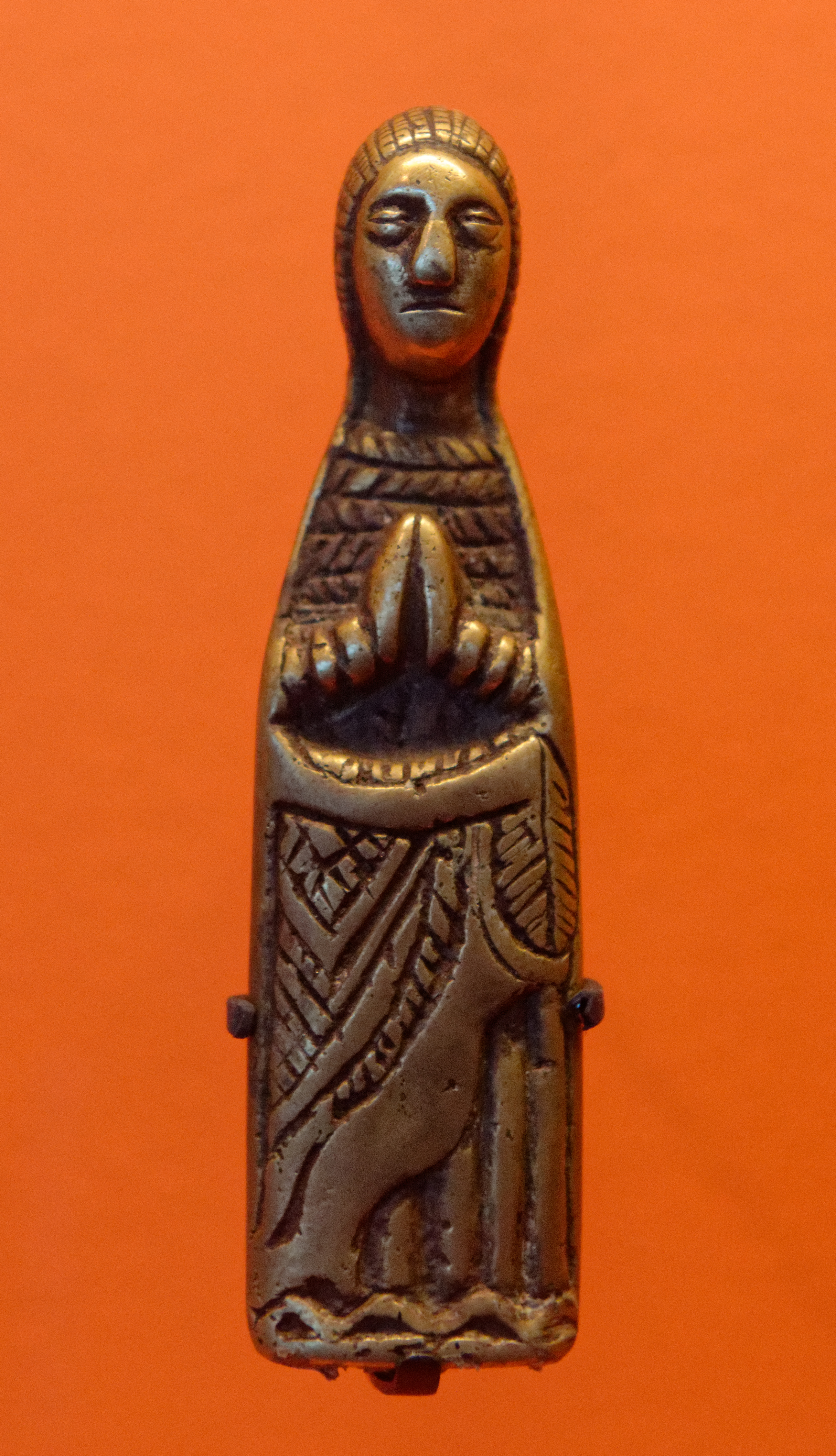 Pendant with the Virgin, Kongo culture.